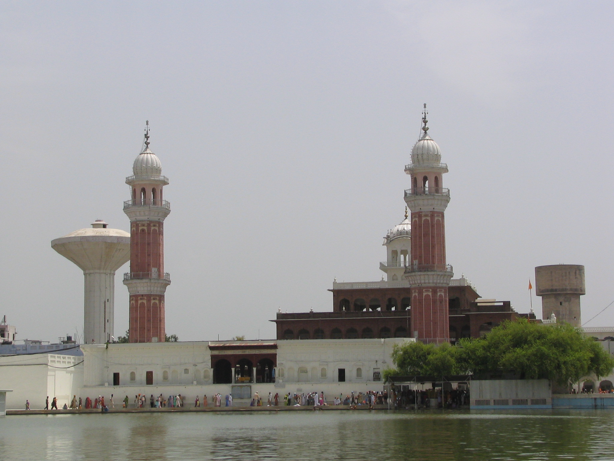 Bunga's at Golden Temple complex, Amritsar